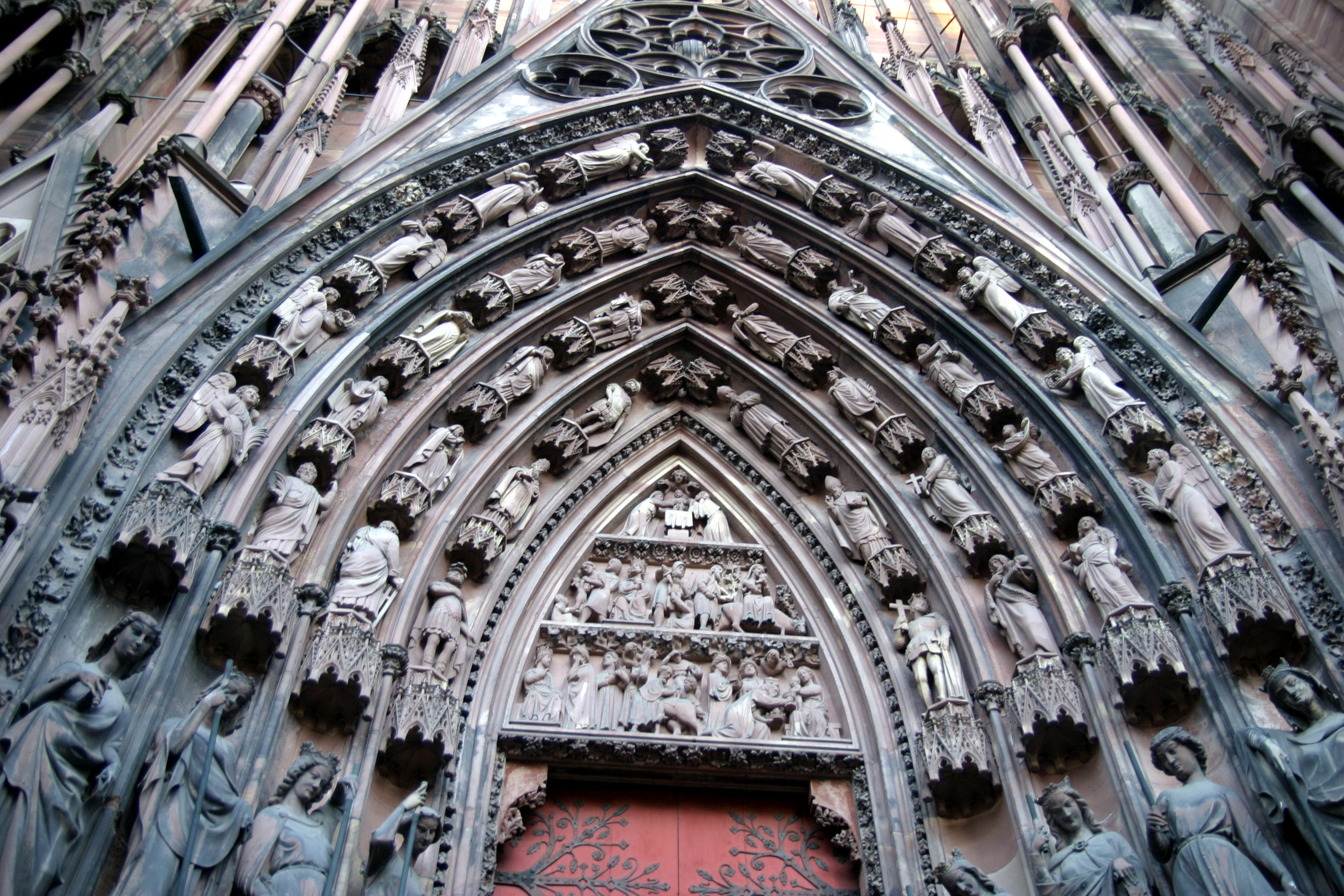 This image was taken at Strasbourg Cathedral, Strasbourg.